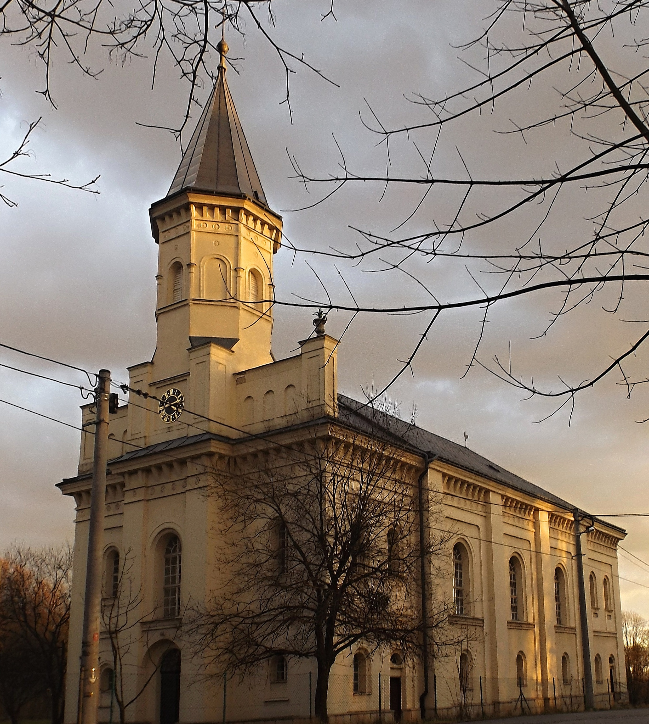 Lutheran church in Orlová This file has been extracted from another file: Lutheran church Orlová.jpg